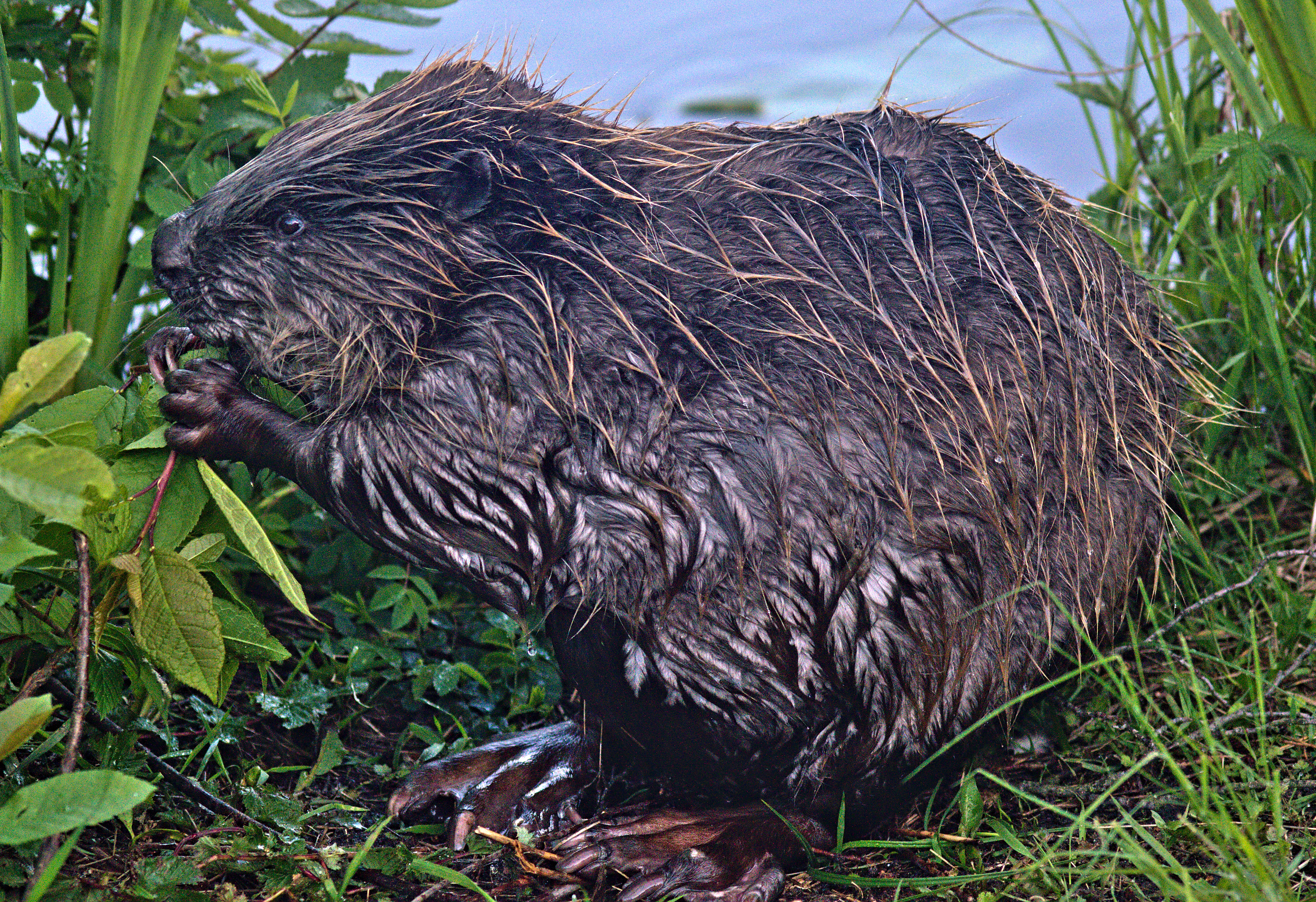 Castor fiber eating in Eskilstuna, Sweden.